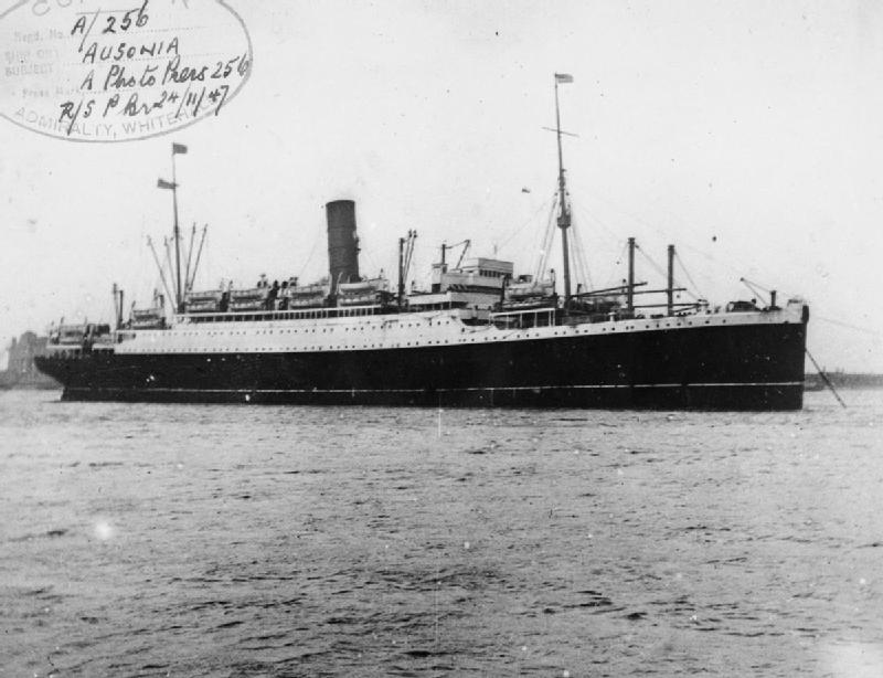 HMS Ausonia At anchor on the Mersey formerly owned by the Cunard Steamship Company Ltd.